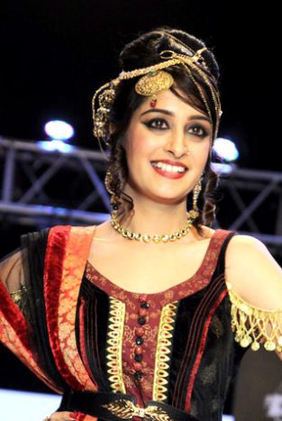 Deepika Samson walked the ramp for the brand Globus